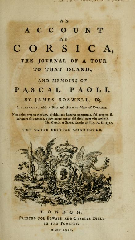 Title page from "An Account of Corsica" published 1768 by James Boswell